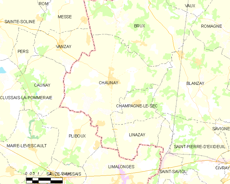 Map of French municipality Chaunay